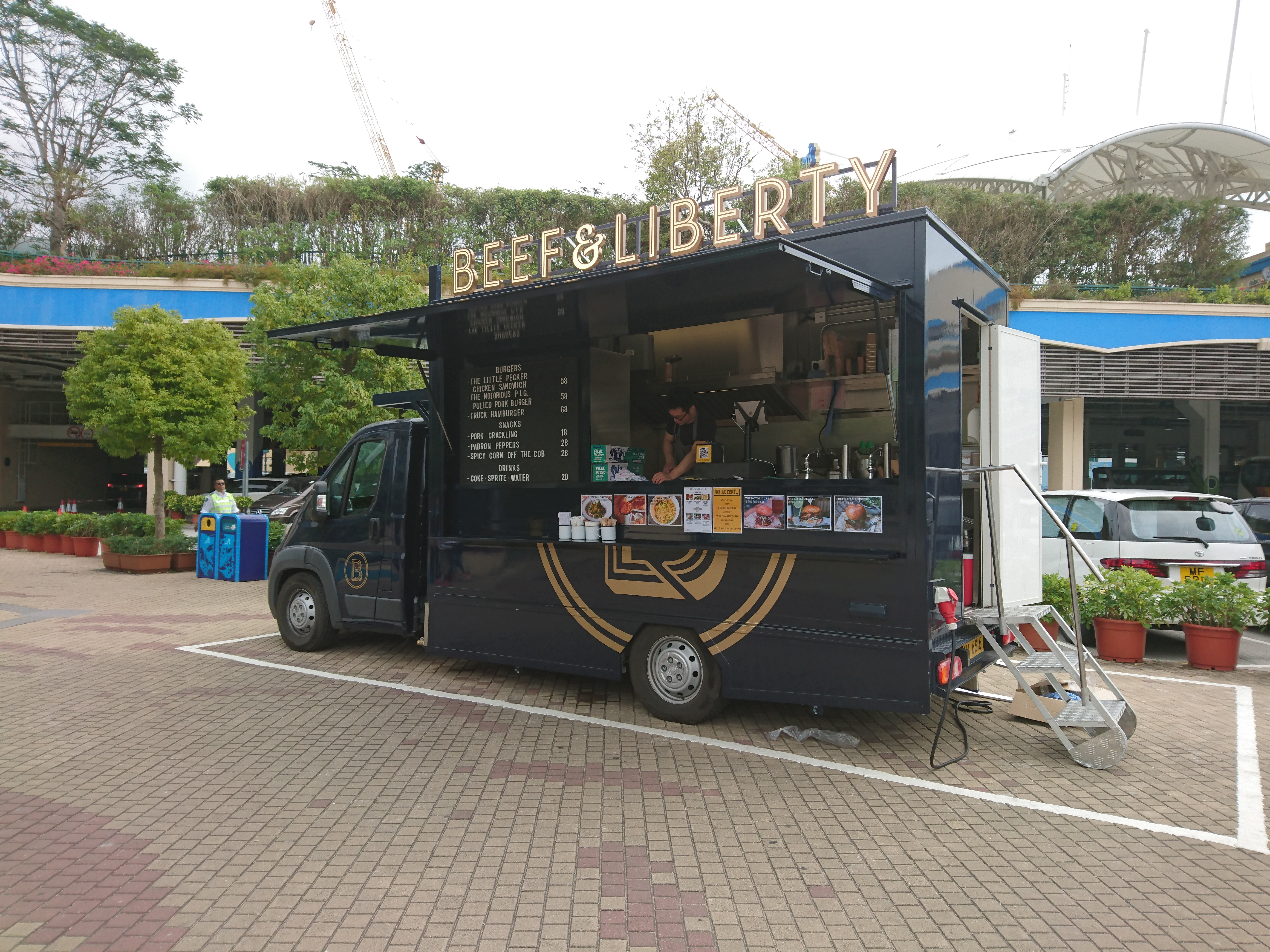 Beef & Liberty Food Truck at Ocean Park